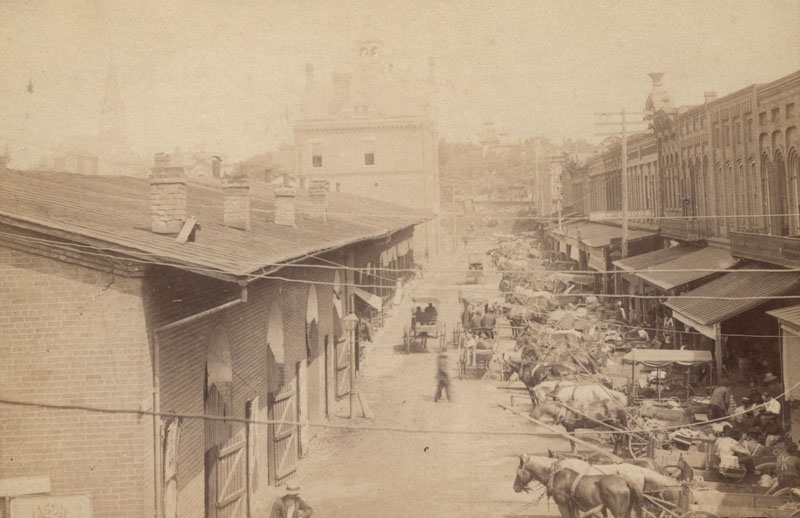 Market Square in Knoxville, Tennessee, United States, showing the first Market House on the left (replaced in 1897)